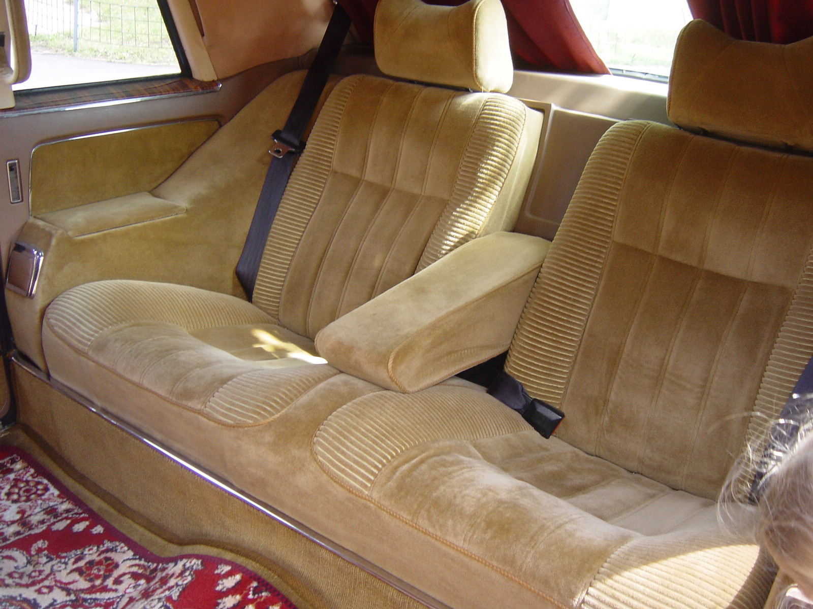 Inside a GAZ-14 Chaika at the Szocialista Jáműipar Gyöngyszemei 2008.